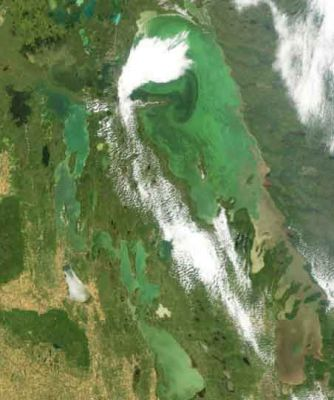 Satellite images of lake winnipeg provided by Moderate Resolution Imaging Spectroradiometer (MODIS)Rapid Response Team University of Maryland and NASA on Greg McCullough's public research website.